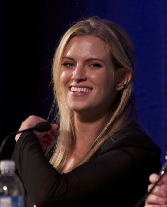 Barbara Dunkelman at PAX Prime 2012, Rooster Teeth Panel